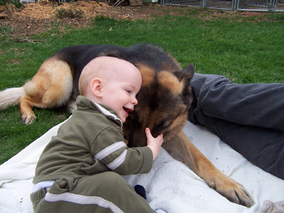 GSD with baby